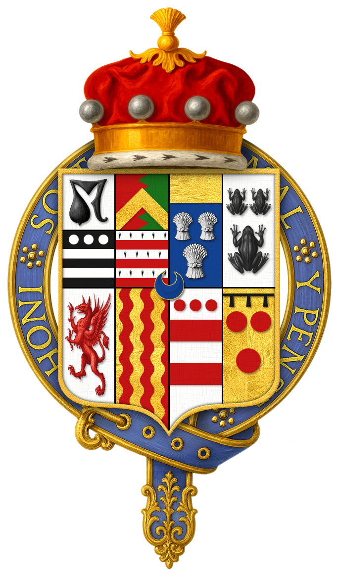 Coat of arms of Sir Edward Hastings, 1st Baron Hastings of Loughborough, KG